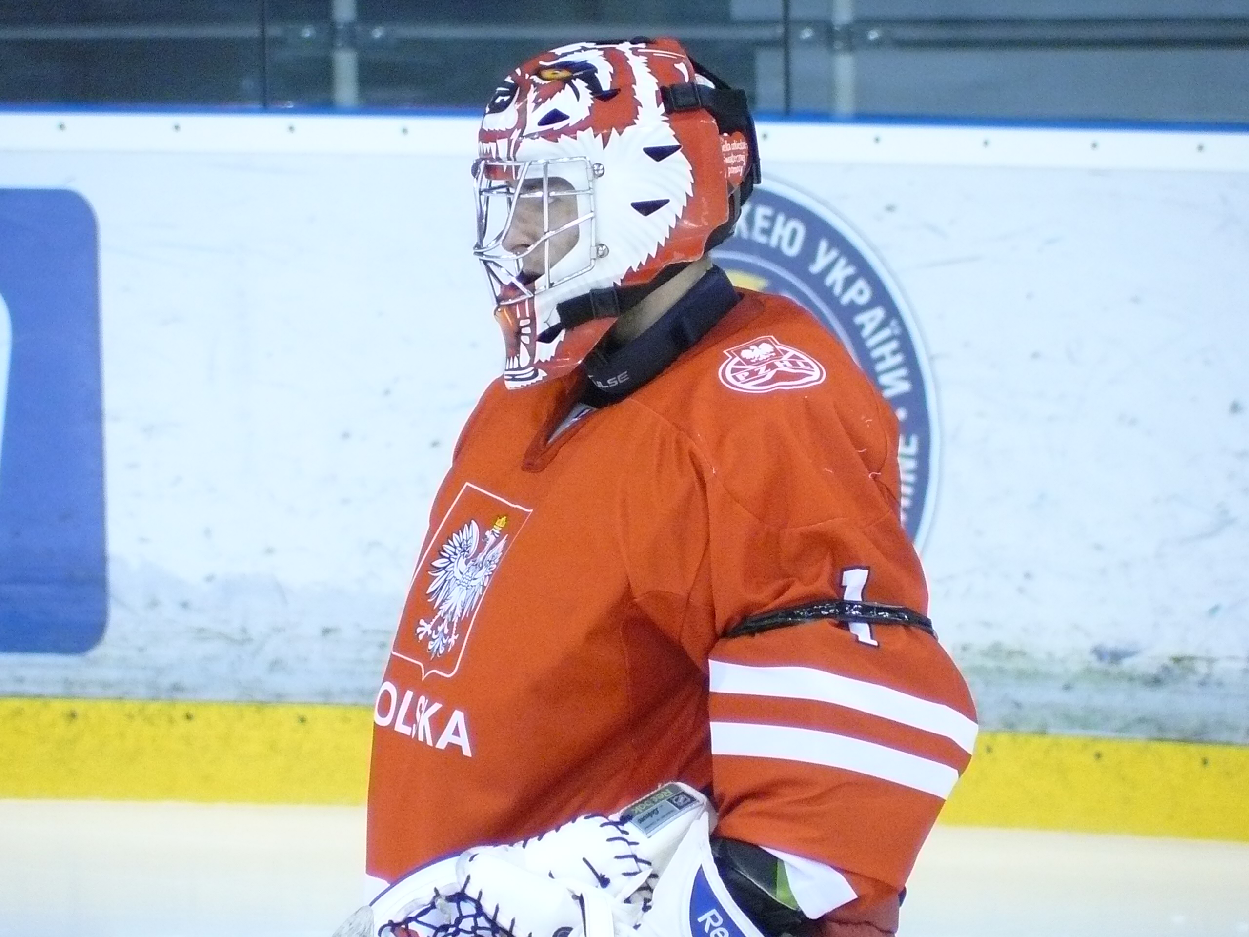 Goalie Krzysztof Zborowski #1 of the Poland during the friendly game against the Ukraine on April 10, 2010 at the Terminal Arena in Brovary, Ukraine. Ukraine won the game 2:1.